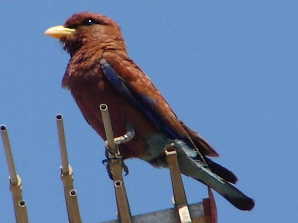 Broad-billed Roller, Zimtroller, Eurystomus glaucurus